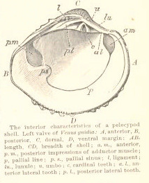 The interior characteristics of a pelcoypod shell. Left valve of Vesus gnidia: A, anterior; B, posterior; C, dorsal; D, ventral margin; AB, length; CD, breadth of shell; a. m., anterior; p. m., posterior impressions of adductor muscle; p, pallial line; p. s., palial sinus; l, ligamnt; ln, lunule; u, umbo; c, cardinal teeth; a. t., anterior lateral tooth; p. t., posterior lateral tooth Subject: Veneridae Tag: Mollusks